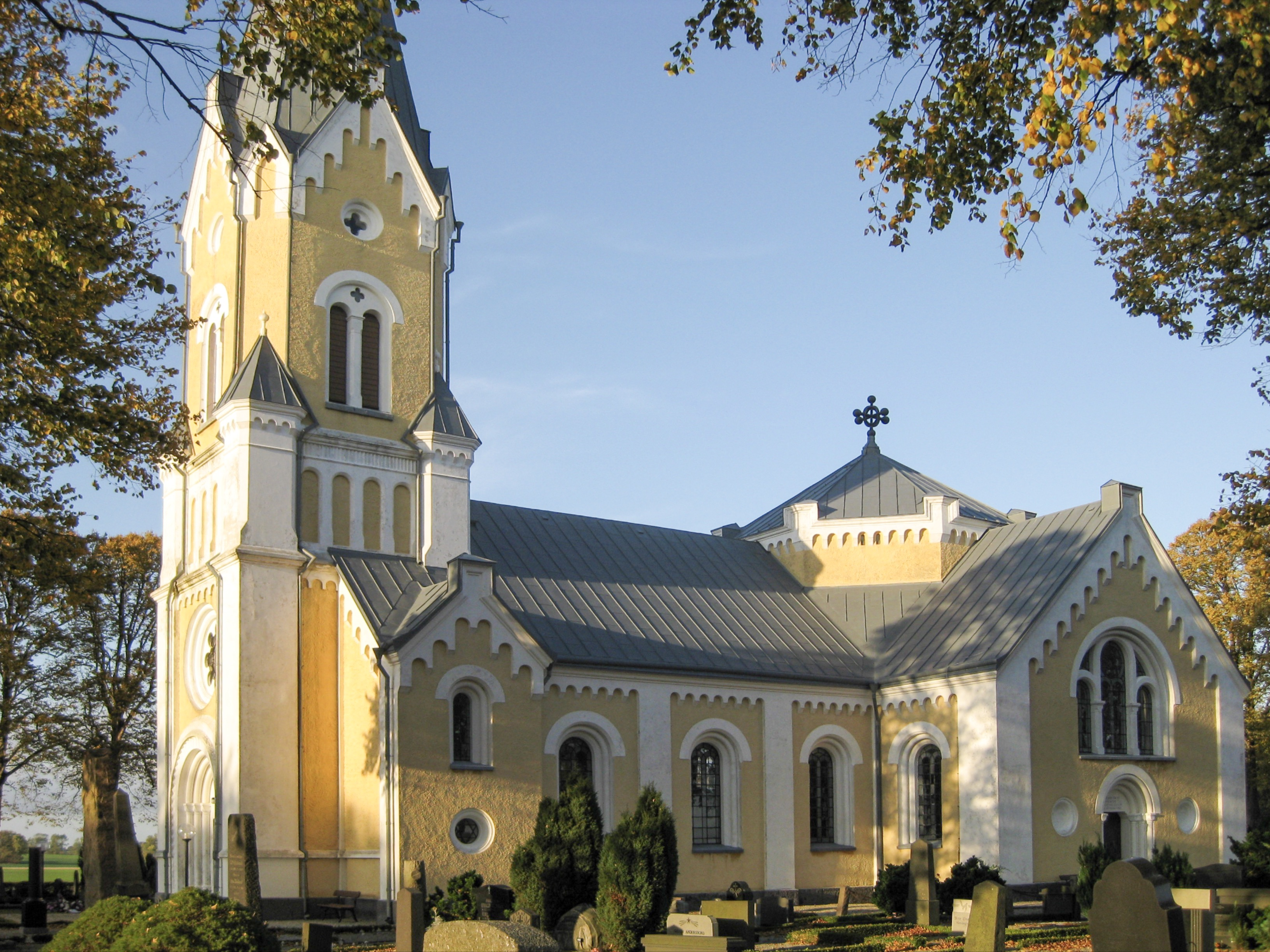 Lilla Beddinge church, Skåne, Sweden